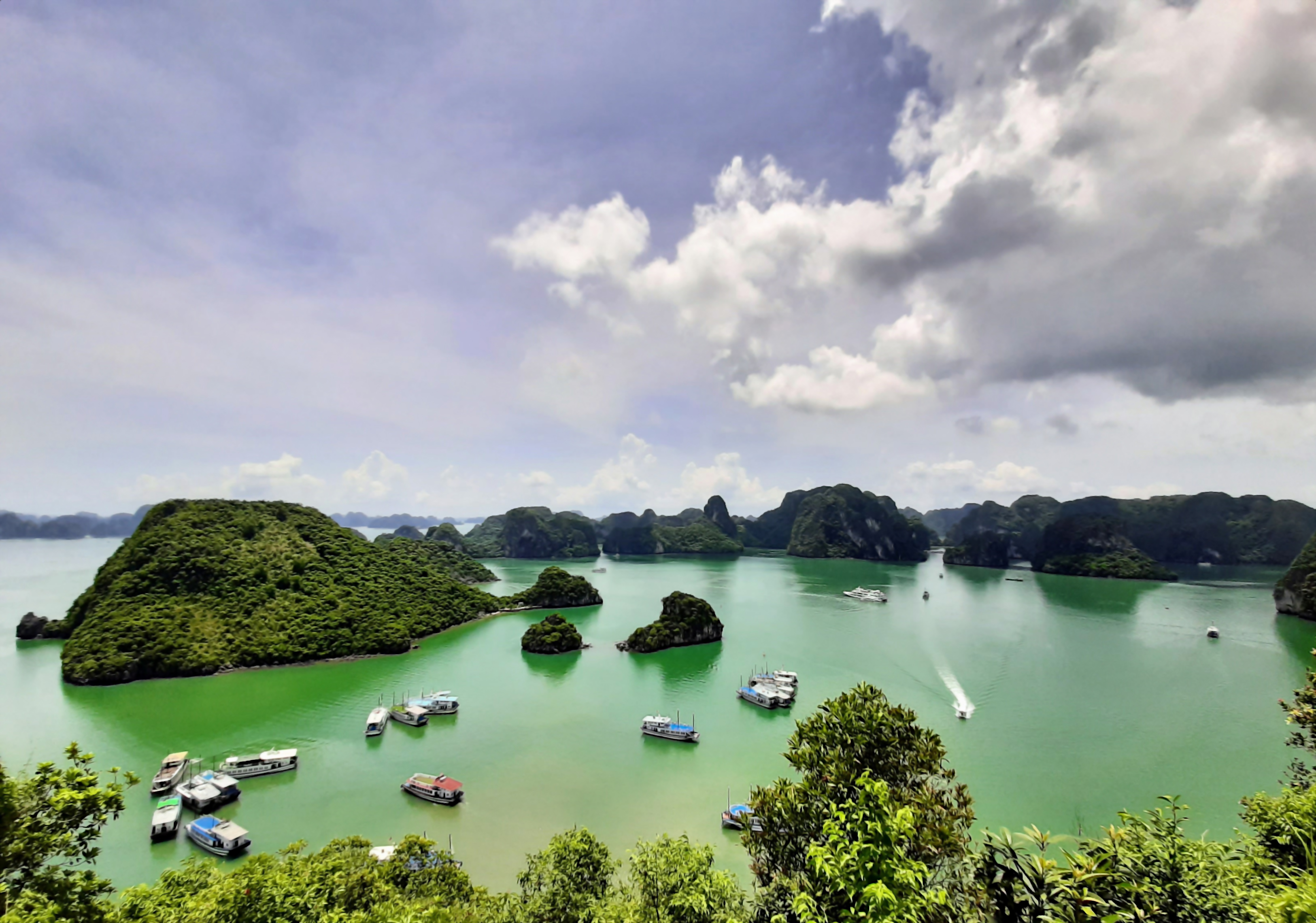 This image was taken by me at Titov Island of Ha Long Bay in July 2019.